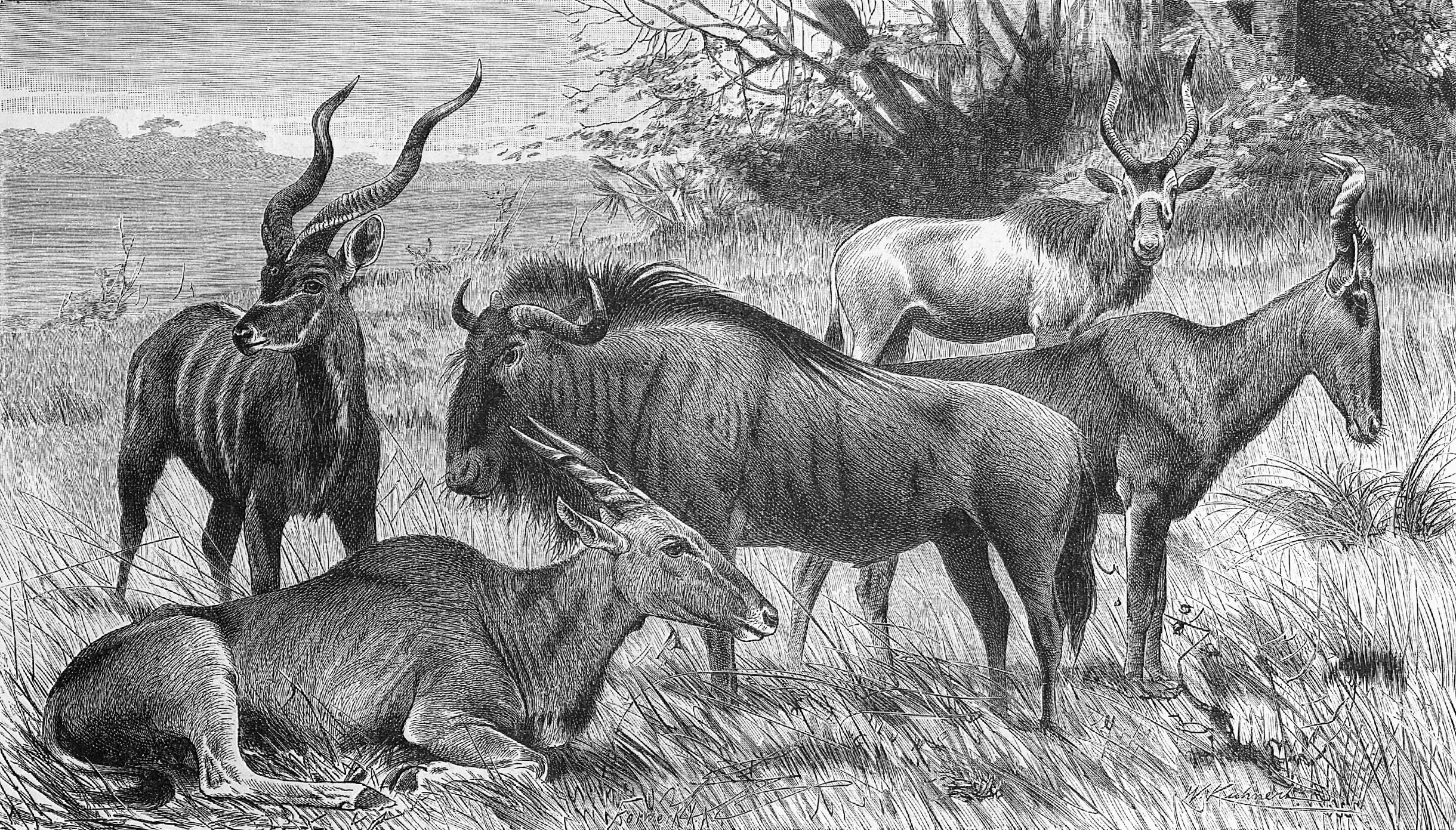 Antilopes 6. Mendesantilop, Addax nasomaculatus. (top right) 7. Kudu, Strepsiceros kudu, Tragelaphus strepsiceros. (top left) 8. Kama, Alcelaphus caama. (bottom right) 9. Eland, Orea canna, Taurotragus oryx. (bottom left) 10. En gnu-art, Connochaetes taurinus. (middle)